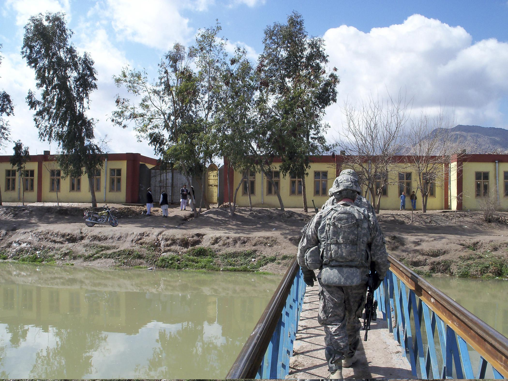 Nangarhar Provincial Reconstruction Team members cross a foot bridge over a canal to conduct a quality control check at Amerkhil Boys and Girls school March 5. (Photo ID: 379722)